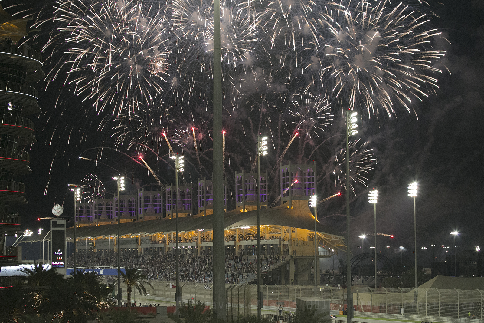 Fireworks at the 2016 Bahrain Grand Prix